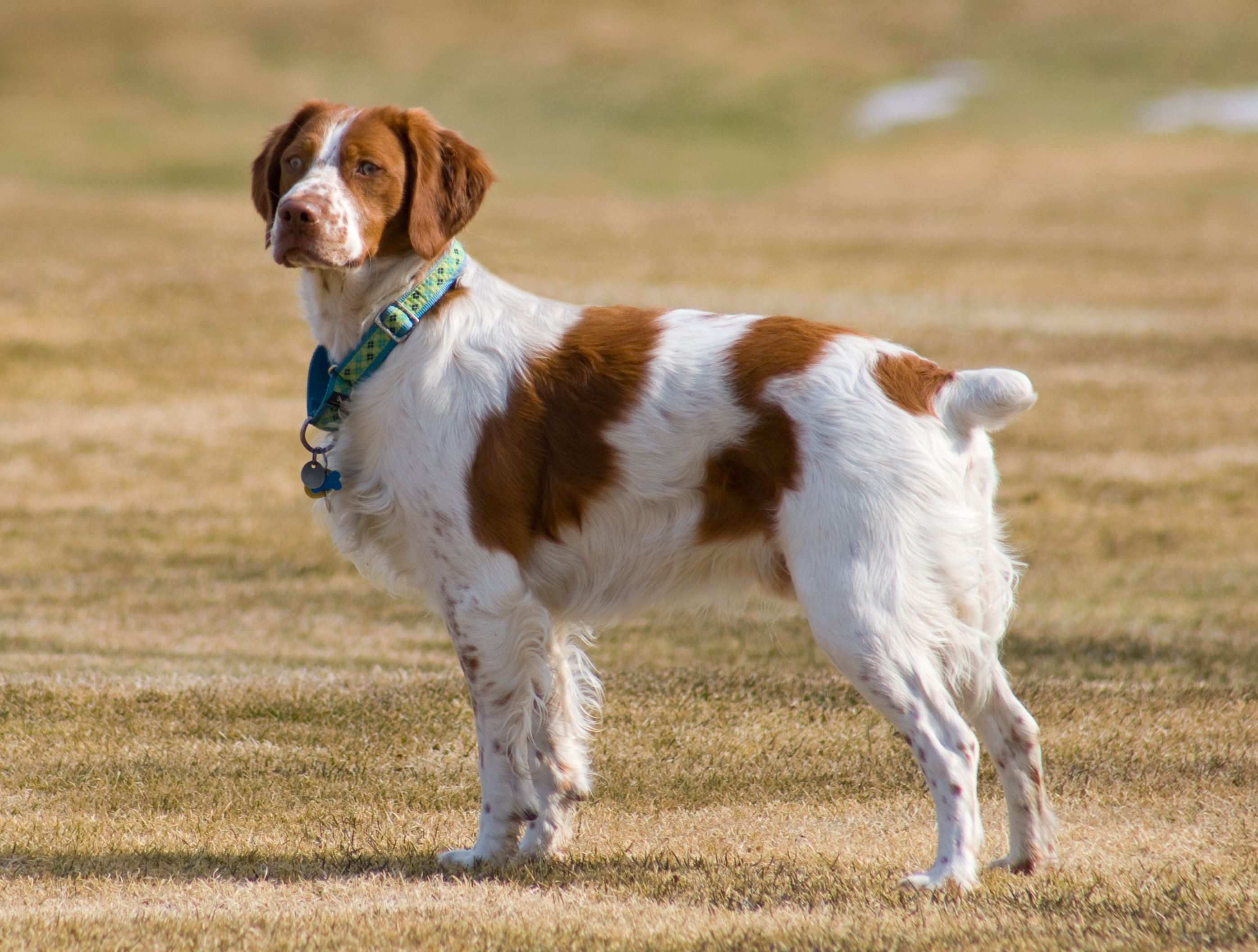 An eleven-month-old male Brittany Spaniel dog, named "Kinwashkly That's Mr. Jagger To You" (nickname "Mick").